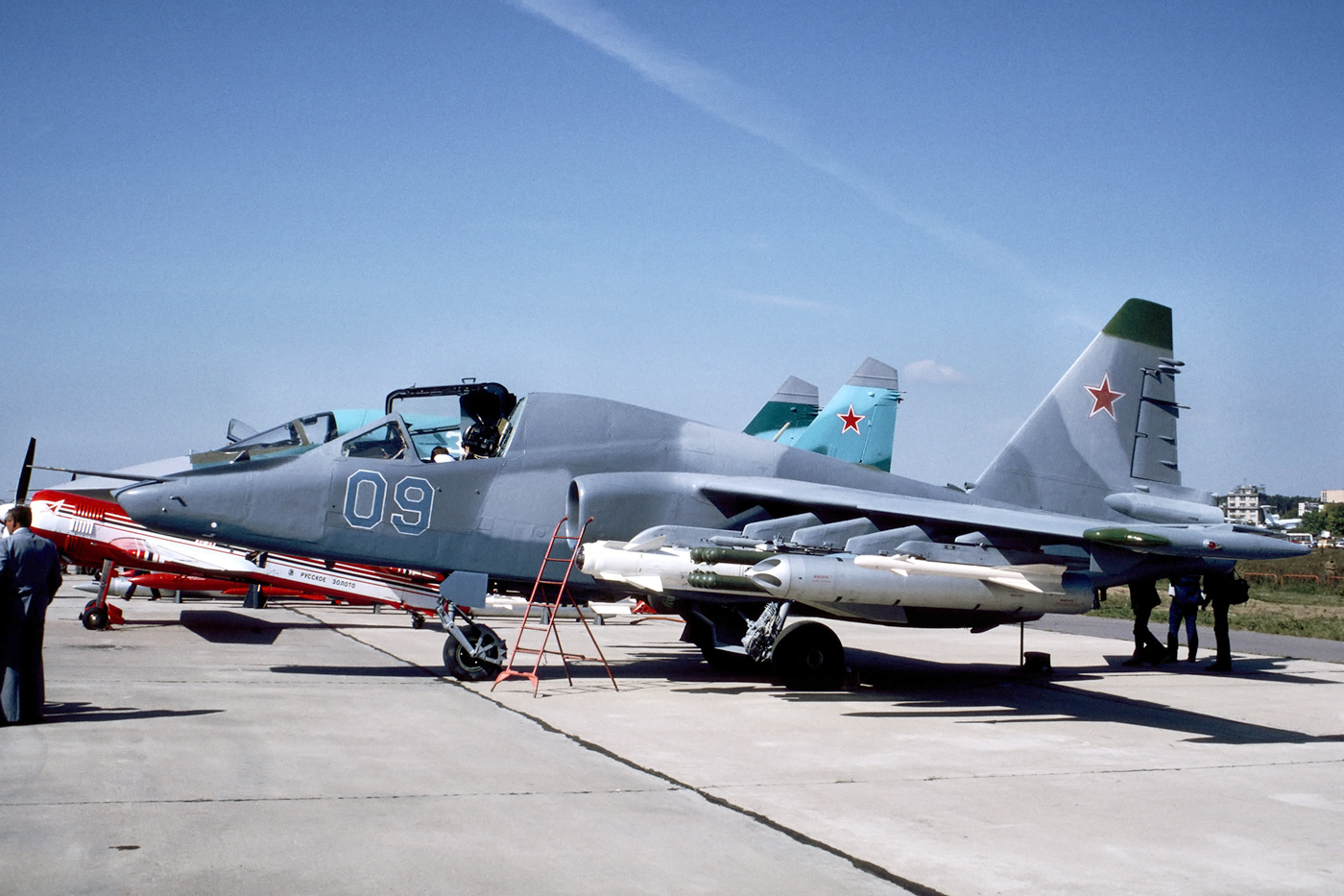 Zhukovsky 1995. The Su-25T was the dedicated antitank version of the Su-25. Only 11 were built before the project was cancelled.